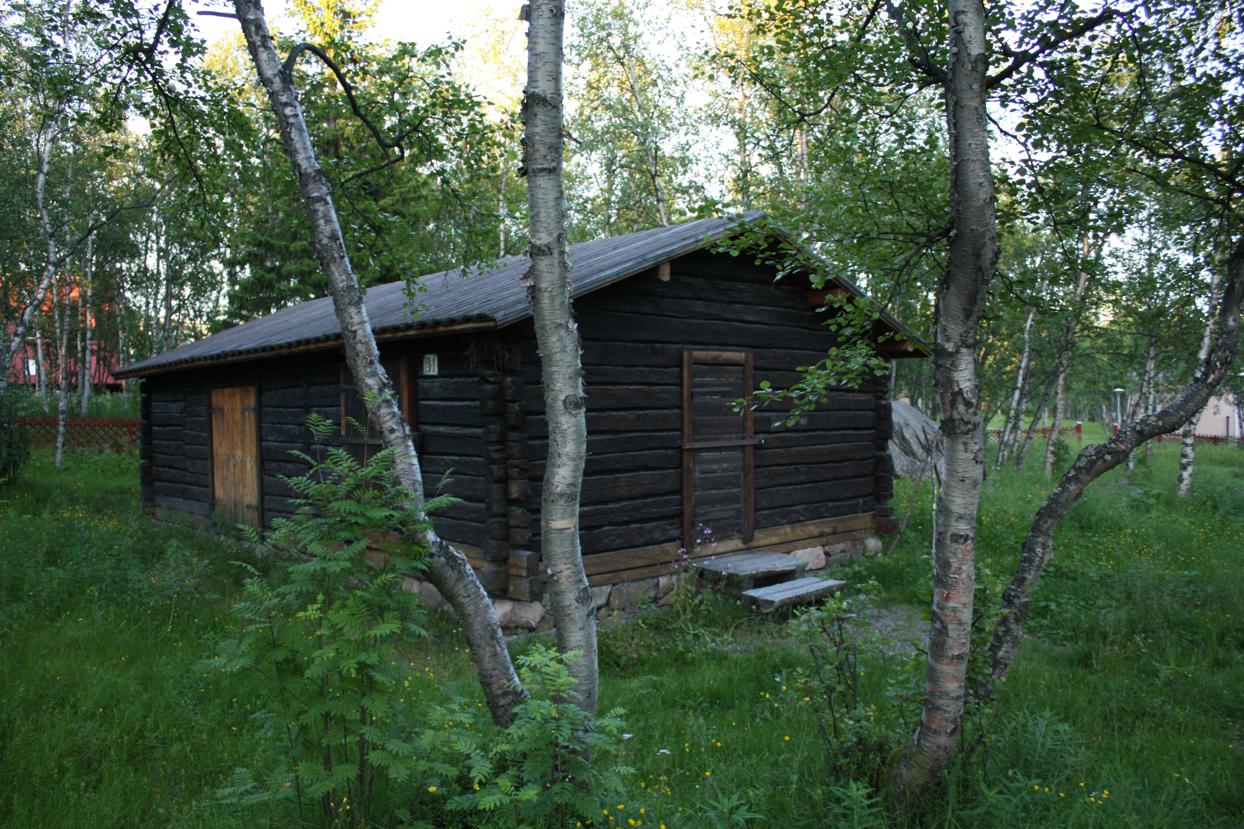 B1, the first building built in Kiruna.